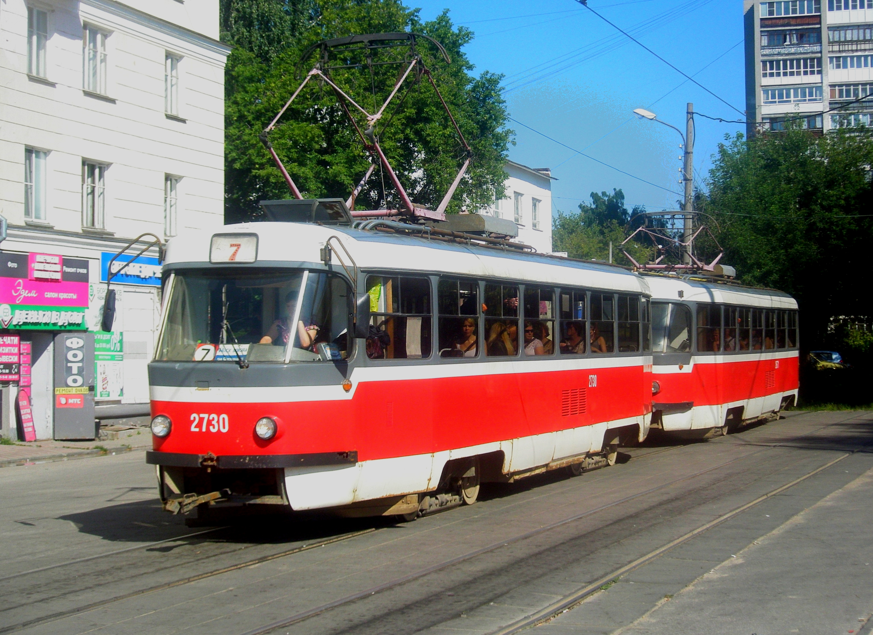 Tram number 2730 in Nizhny Novgorod at Sormovo Center stop